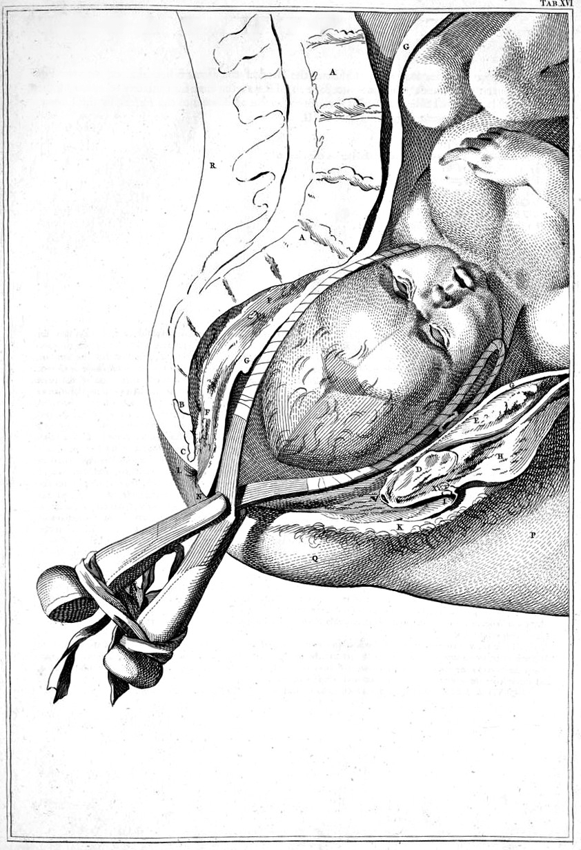 William Smellie (1697-1763): A Sett of Anatomical Tables with Explanations and an Abridgement of the Practice of Midwifery, 1754.